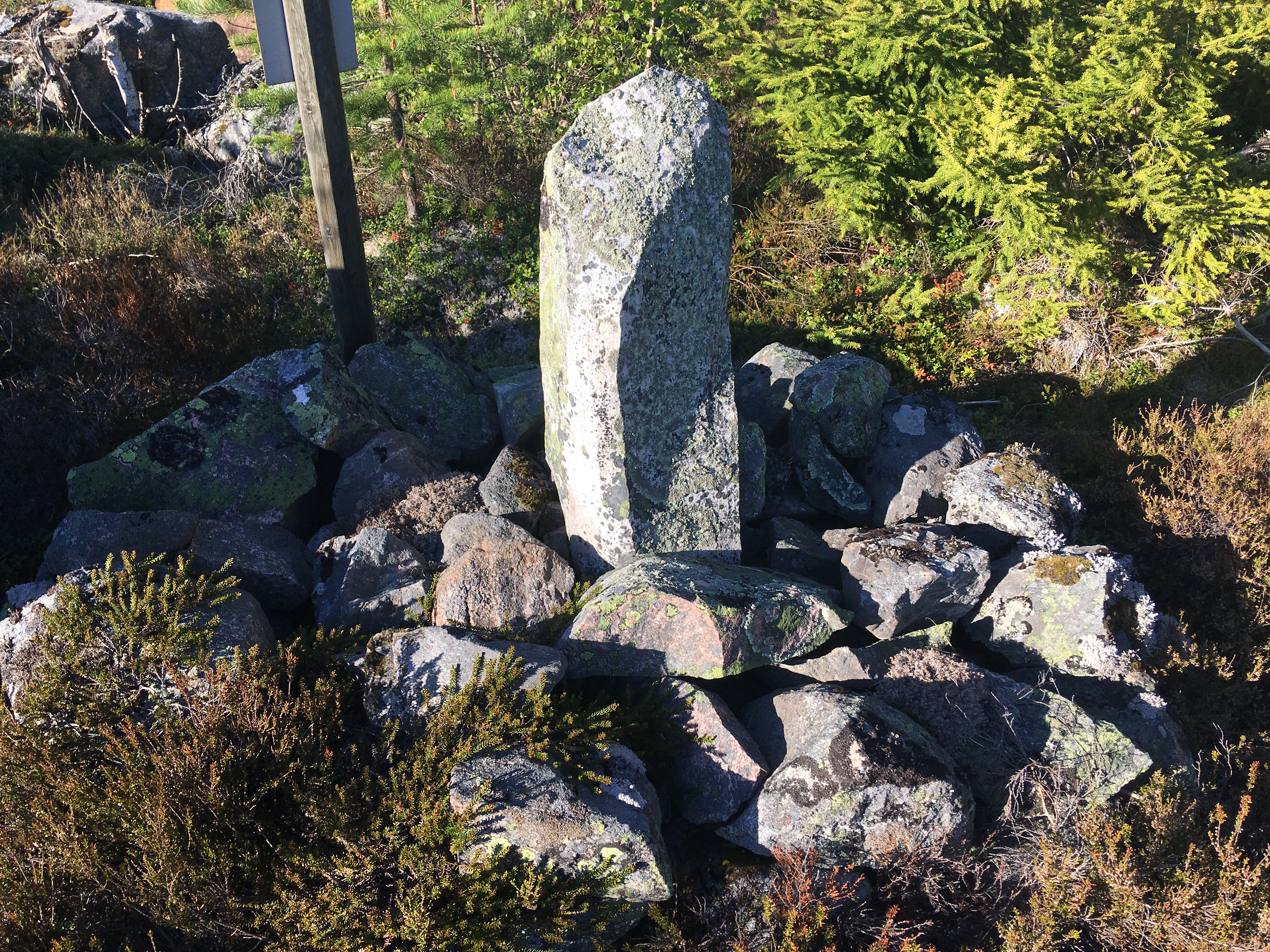 Gränsröse mellan Svärdsjö och Sundborn socknar.